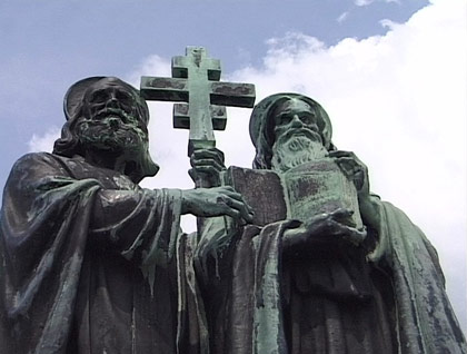 Statue of SS Cyril and Methodius by Albín Polášek on Radhošť Mt., Czech Republic.